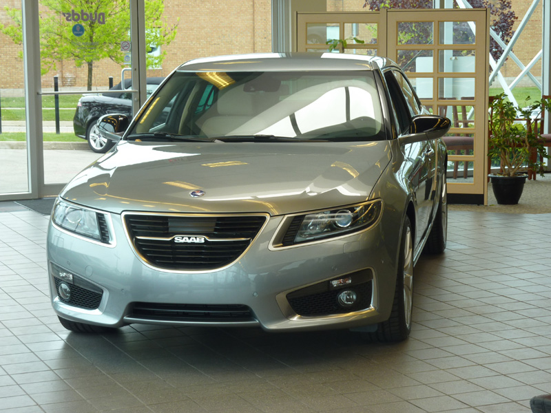 Front end of a 2010 Saab 9-5.